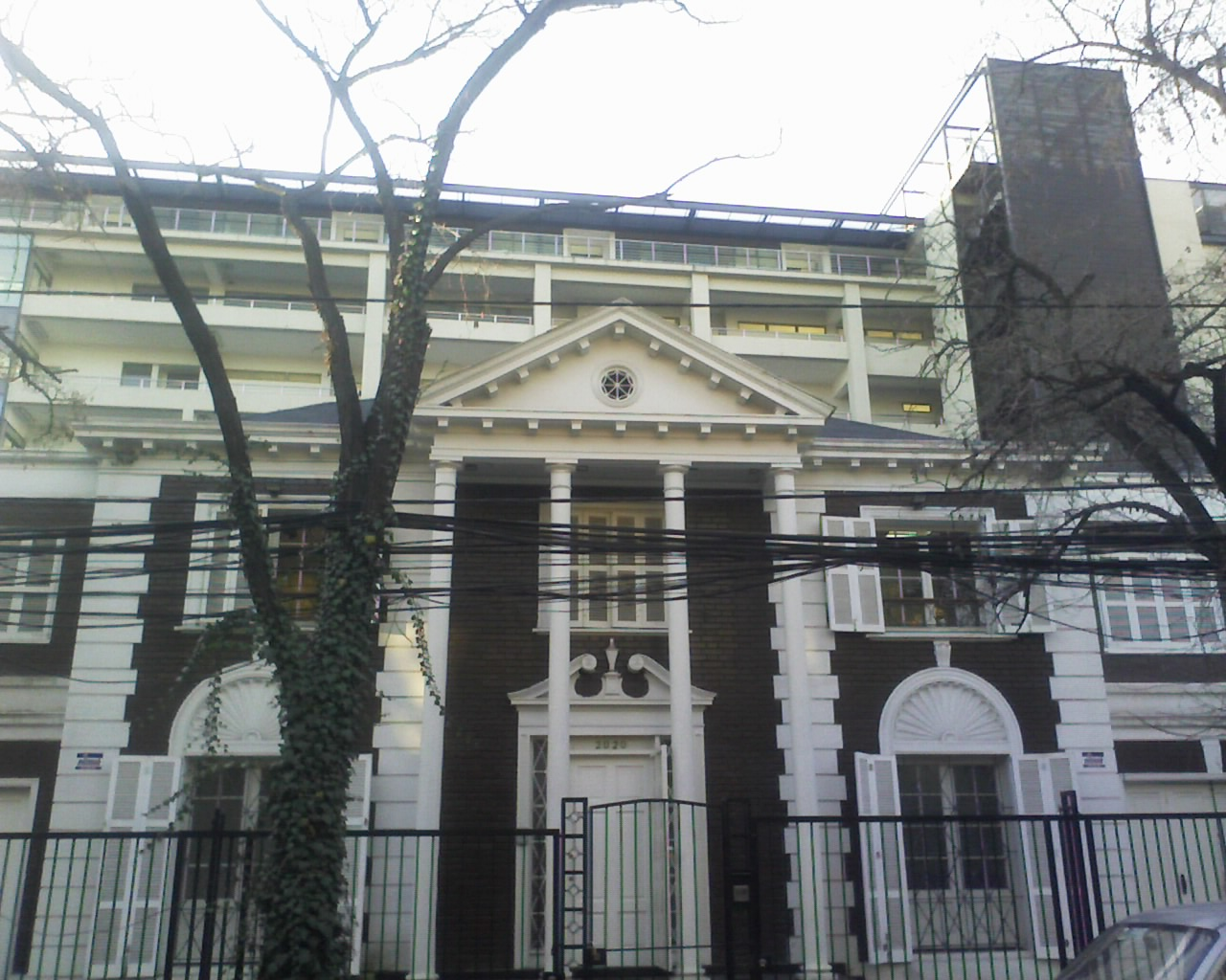 First building of Radio Zero.